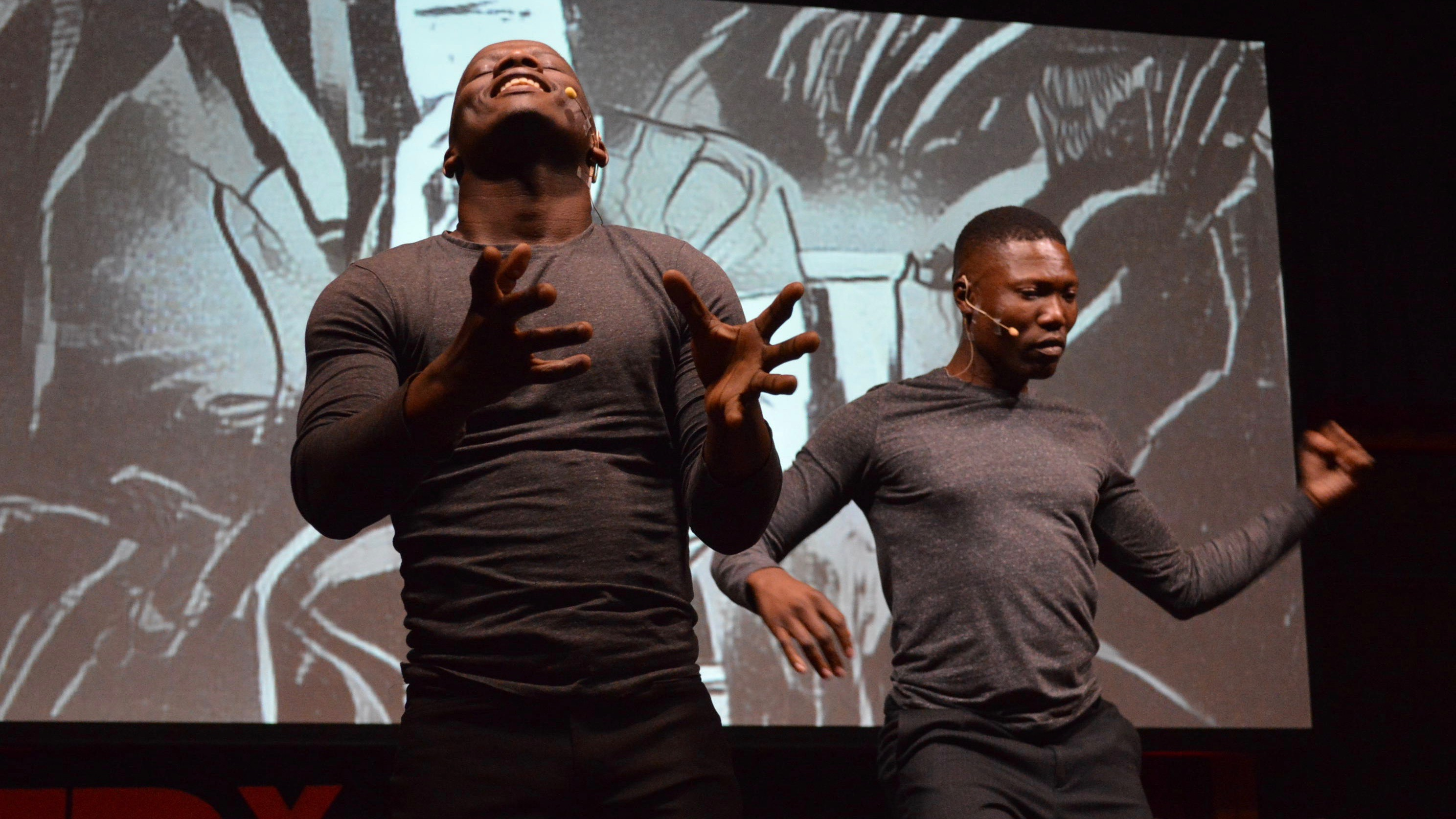 Vuyani Dance Theatre at TEDxJohannesburgSalon 2016. This is an image of "African people at work" from South Africa